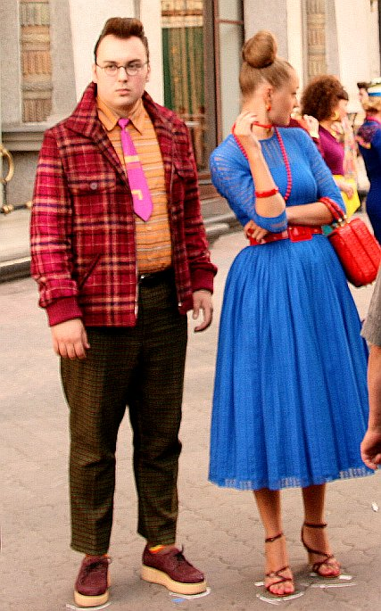 Ekaterina Vilkova and Igor Voynarovsky, filming Stilyagi by Valery Todorovsky